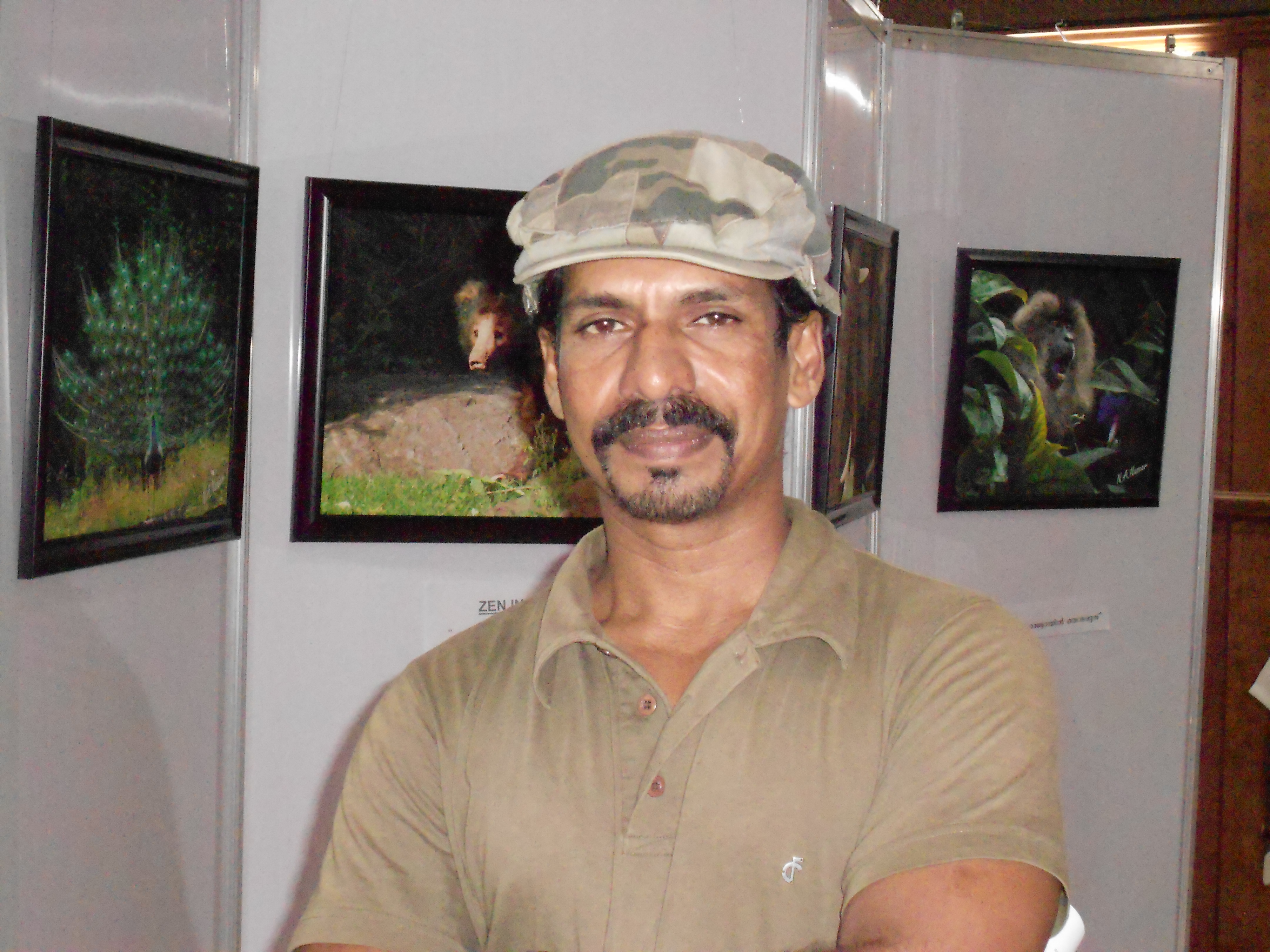 N. A. Nazeer, wild life photographer